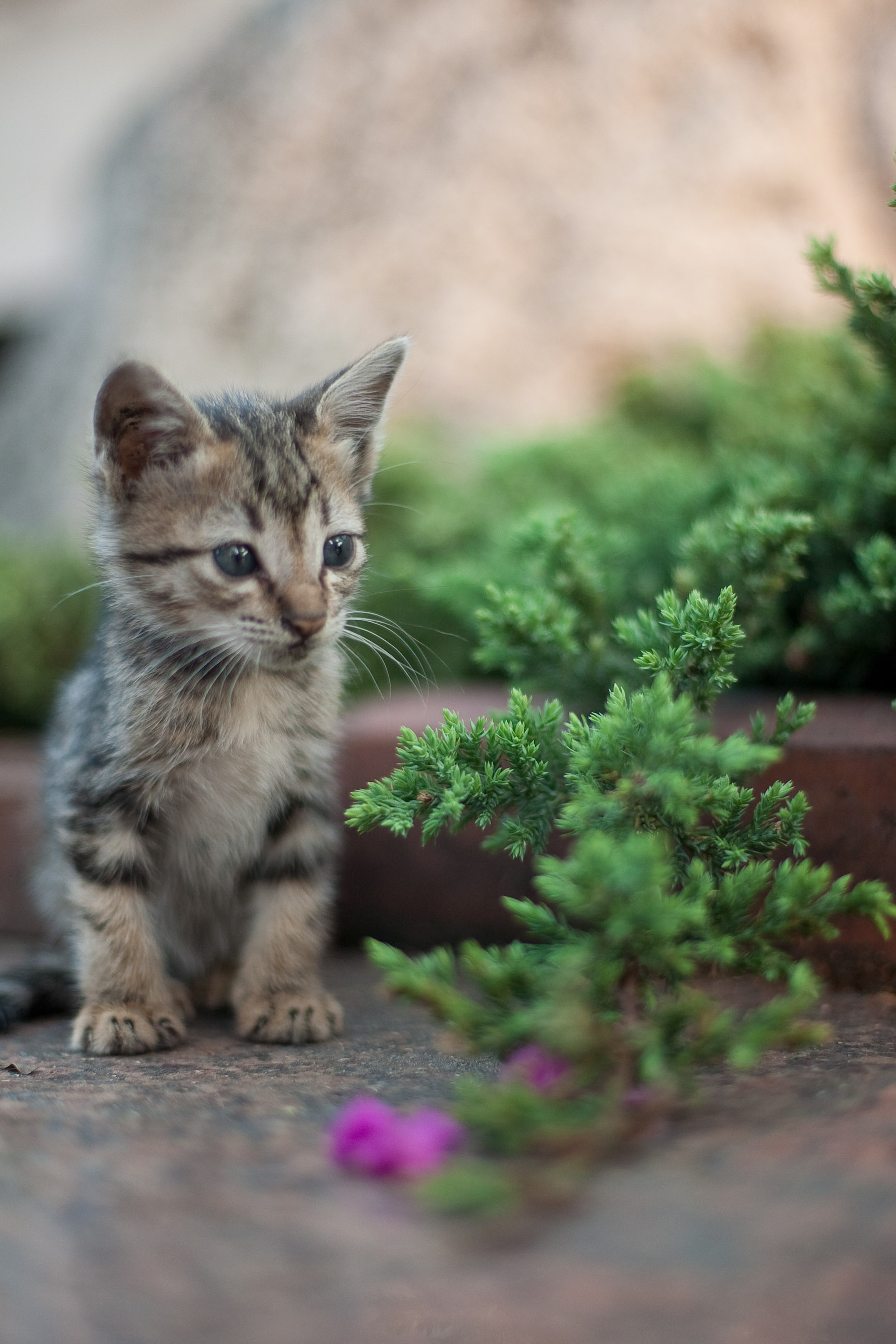 Stray cats seem to be common place in many Asian countries. Unregulated and left to their own devices strays can be found all over the place in the most unlikely places. This tiny cat was in the middle of Rizal Park in the heart of Manila on a late Saturday evening with thousands of people around. Its mother was no where in sight.